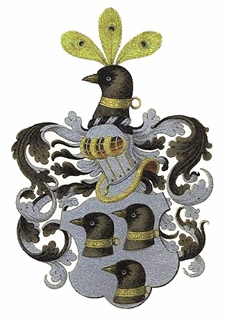 Arms of the in Denmark and Norway noble family Treschow.